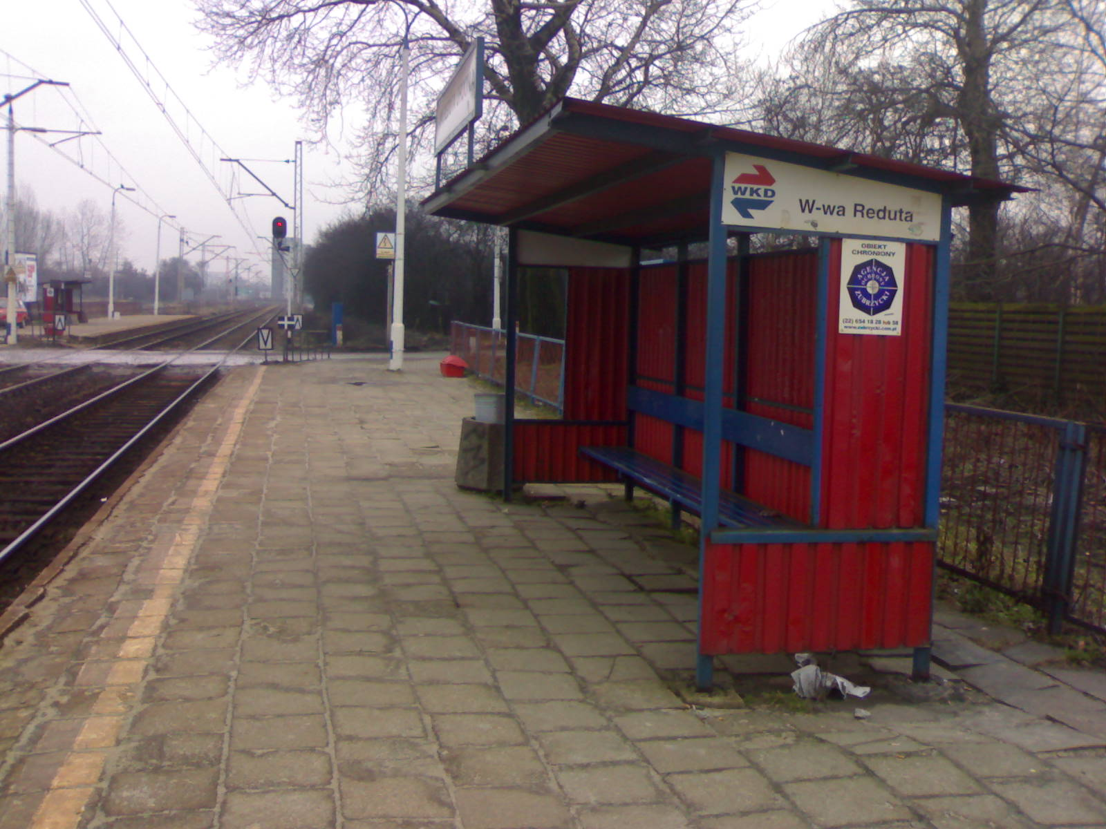 WKD train stop named Warszawa Reduta Ordona. A train stop owned by Warsaw Commuter Rail (WKD) located in Warsaw, named Warszawa Reduta Ordona.